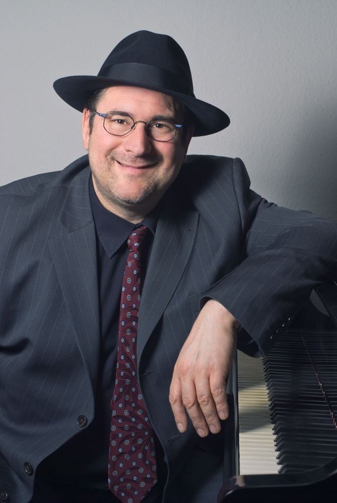 German Jazz musician (saxophones, keyboards) and composer.